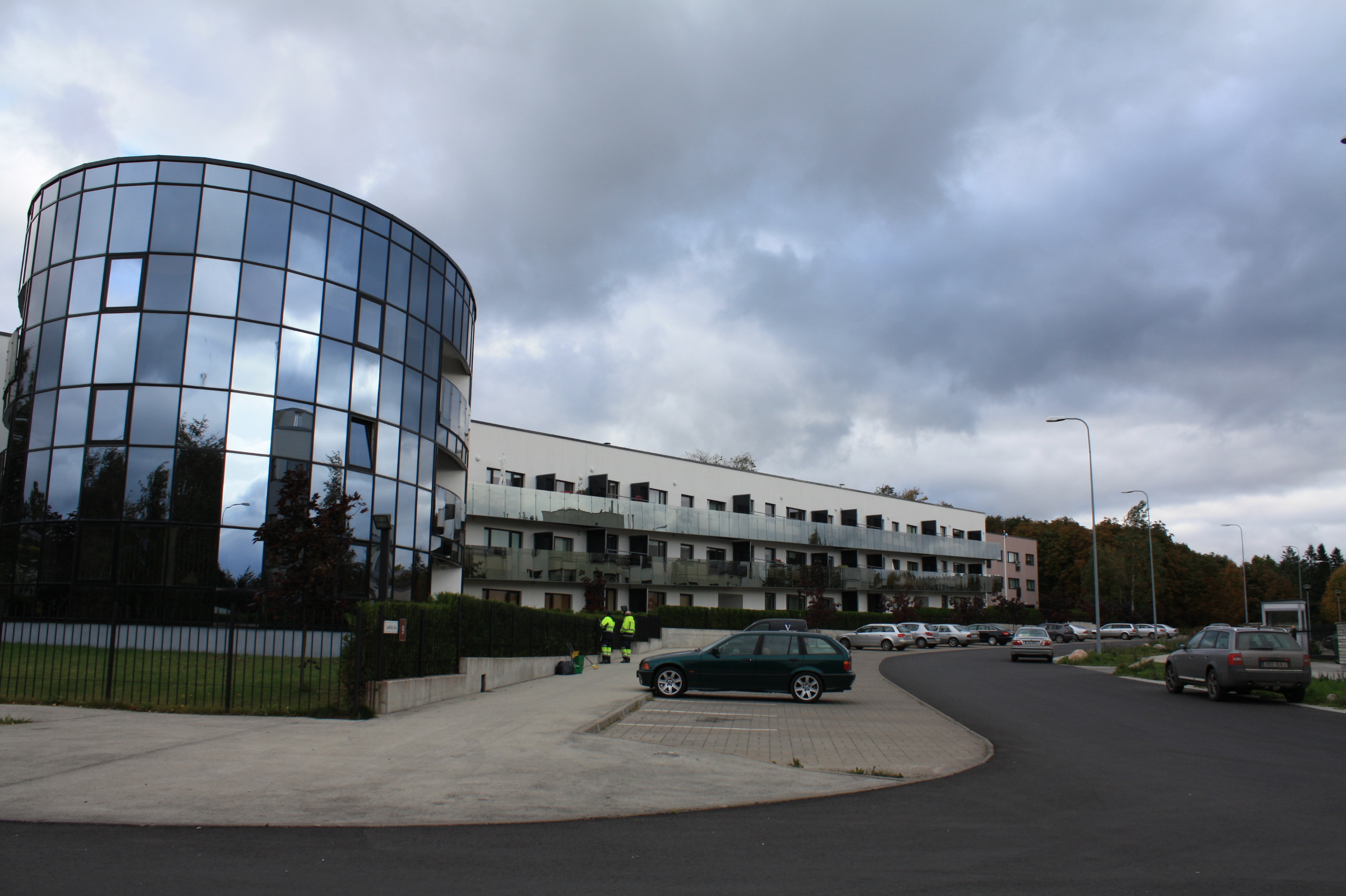 Appartment building in Merivälja